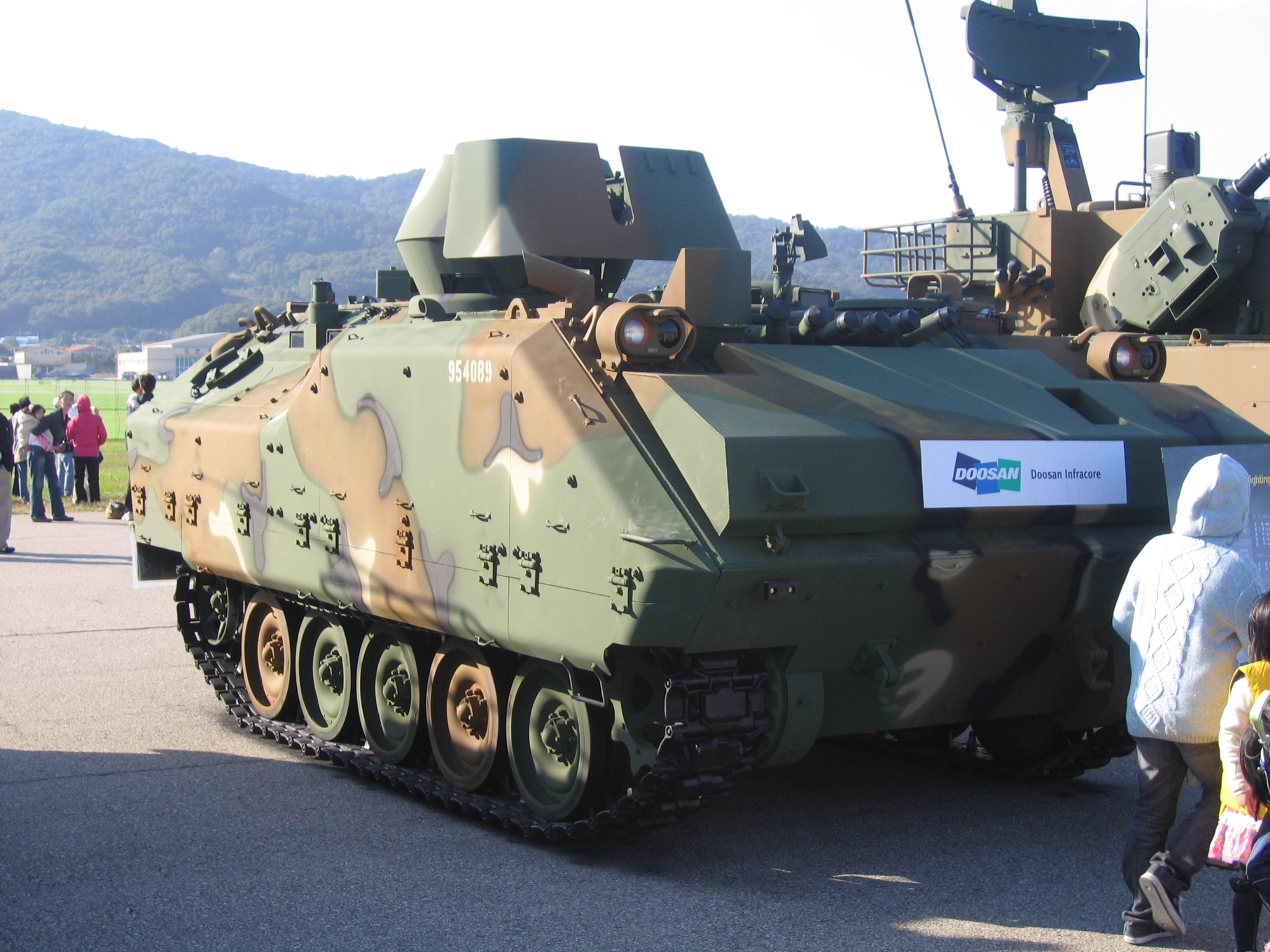 K200 APC of South Korea which photoed by Rheo1905 in 2007 Seoul Air Show